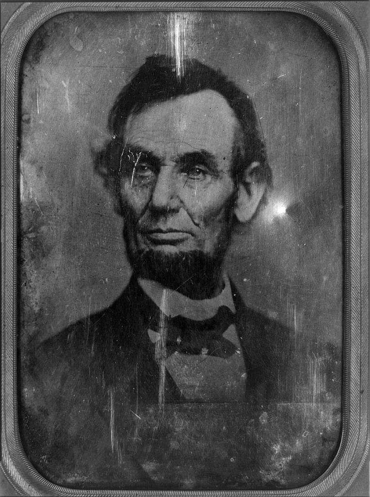 Abraham Lincoln, head-and-shoulders portrait, facing slightly left